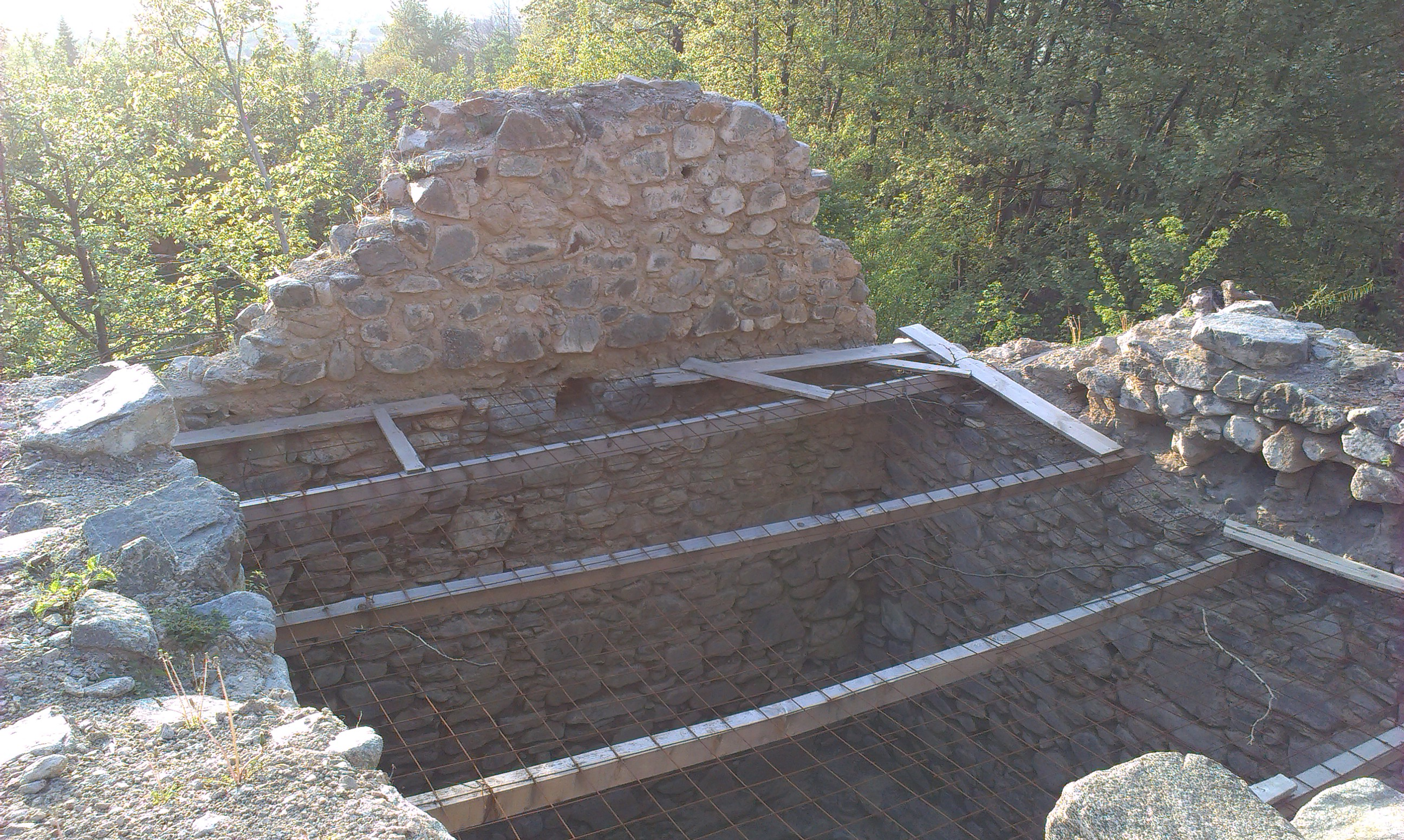 Pirgo tower